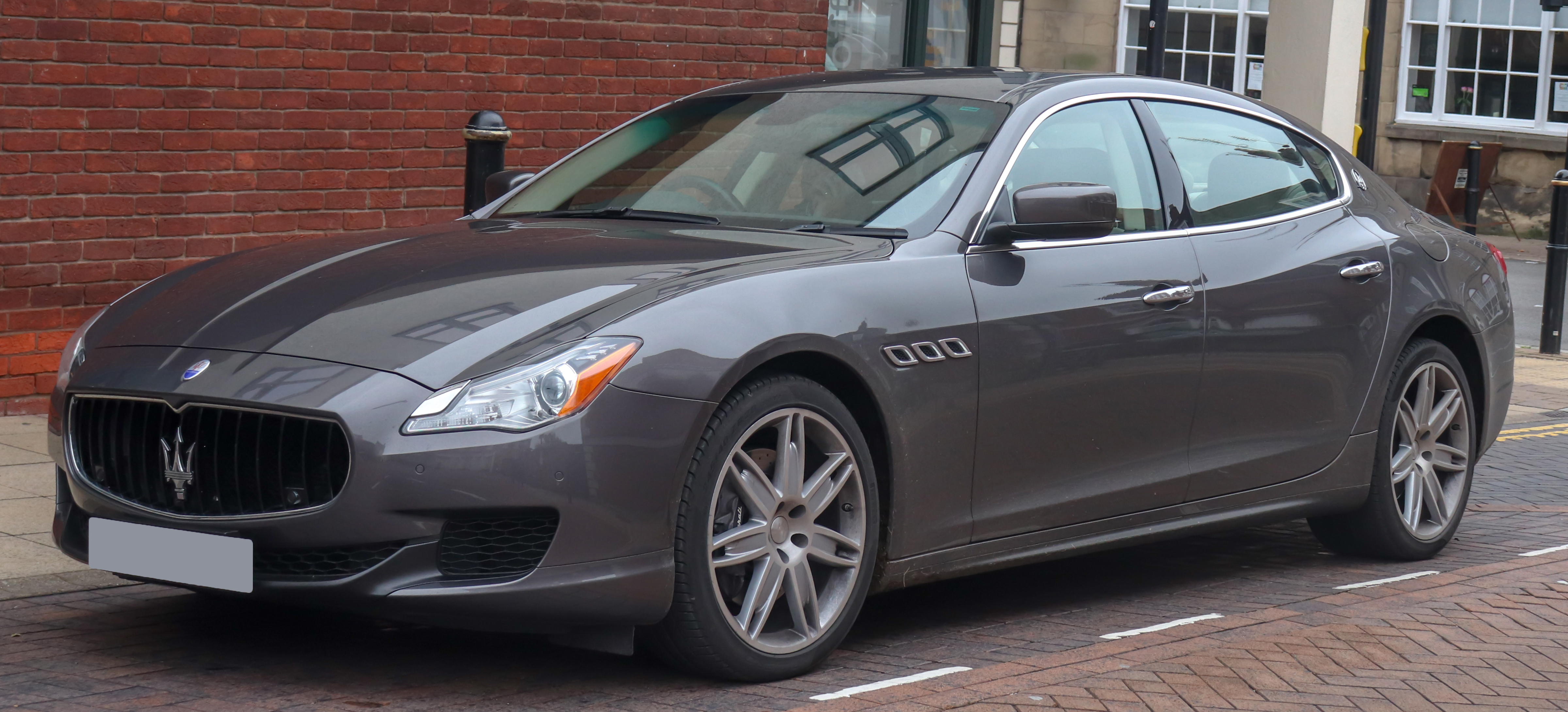 2015 Maserati Quattroporte DV6 Automatic 3.0 Front Taken in Warwick